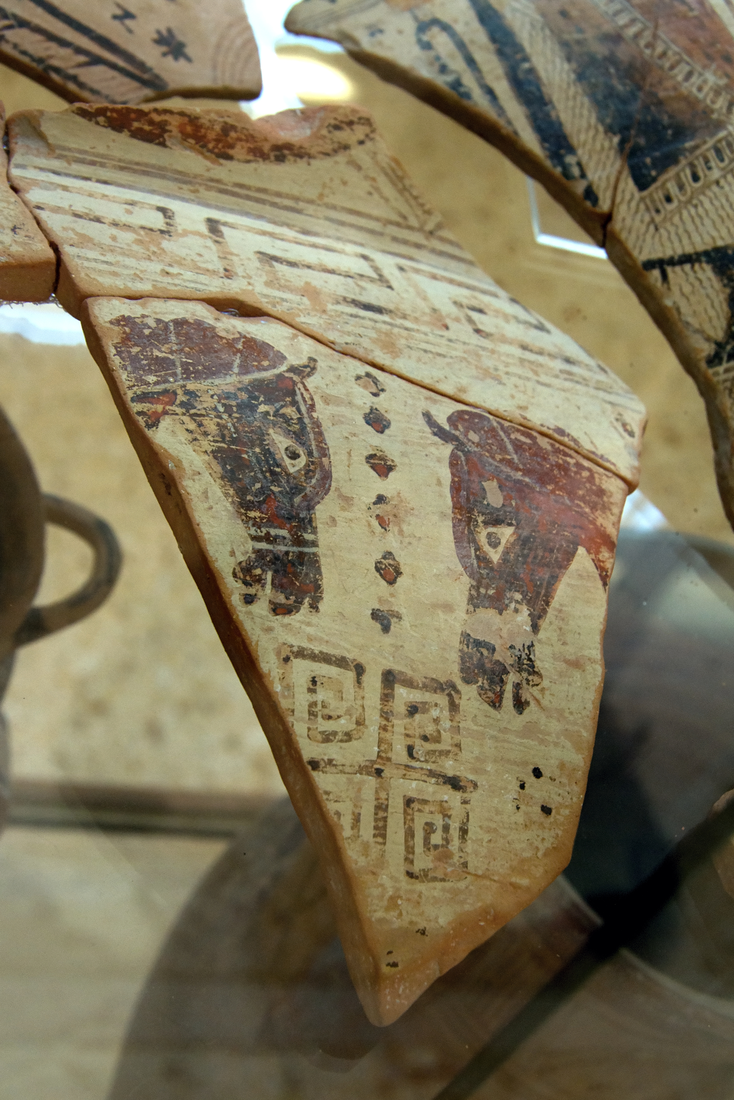 Ancient Greek pottery of Cycladic workshop, find from cemetery north of Paroikia, shard with painting, 700 – 600 BC. Archaeological museum of Paros.